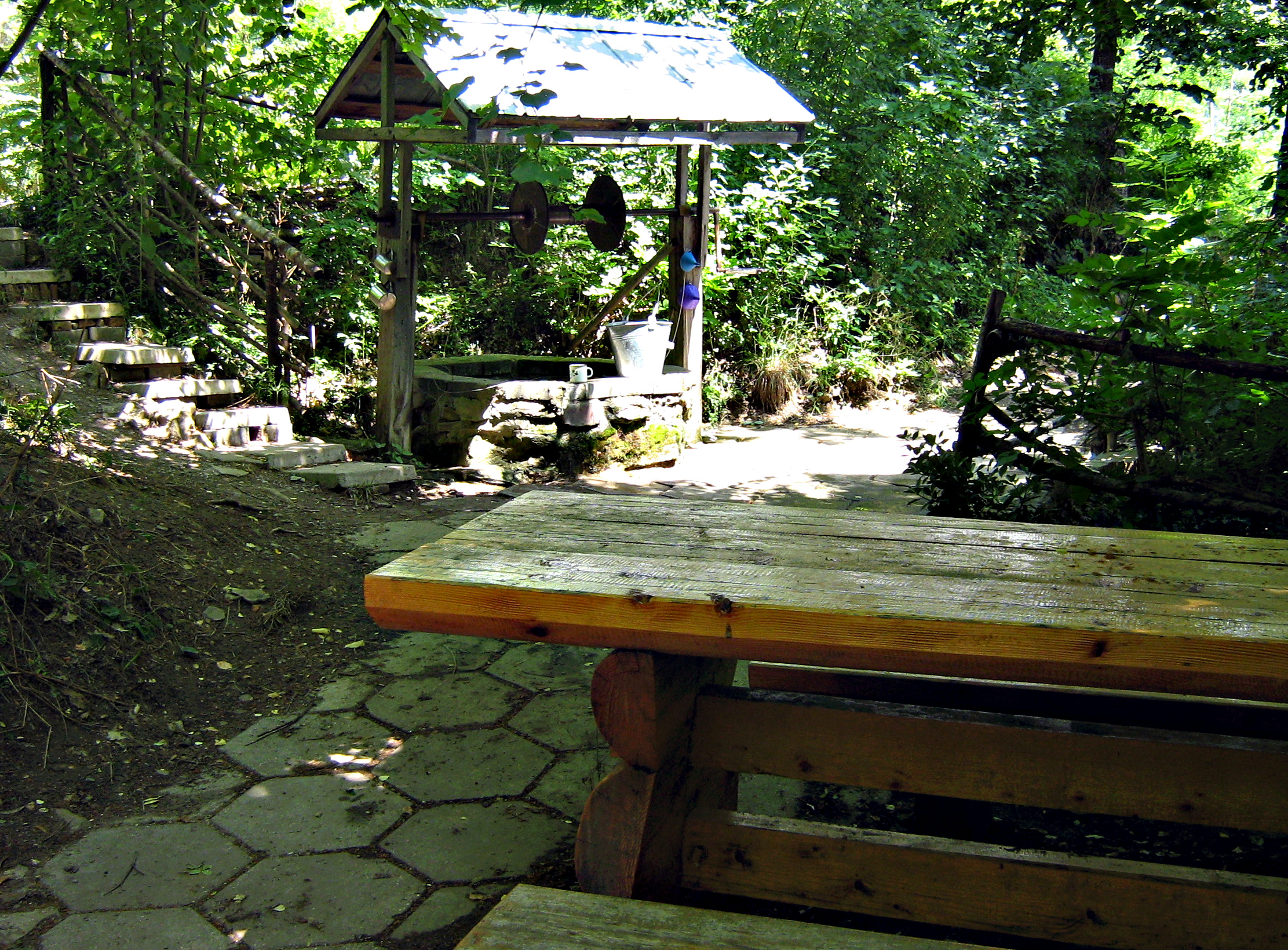 Spring.Kyzyltash Monastery. Crimea. Ukraine.